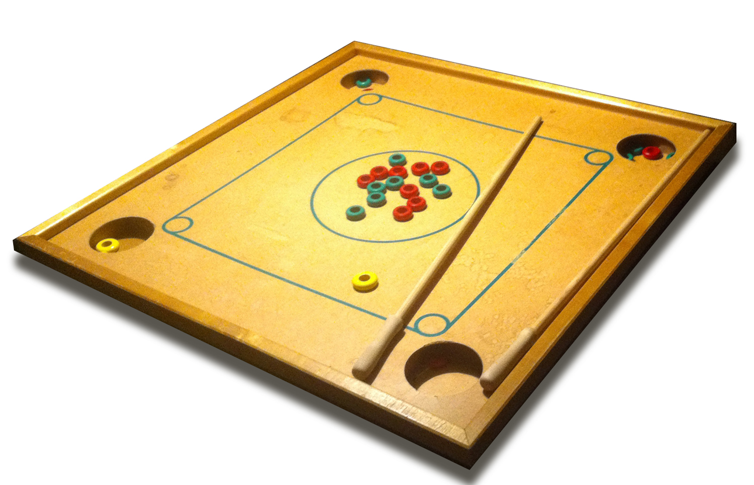 Swedish version of the game couronne.